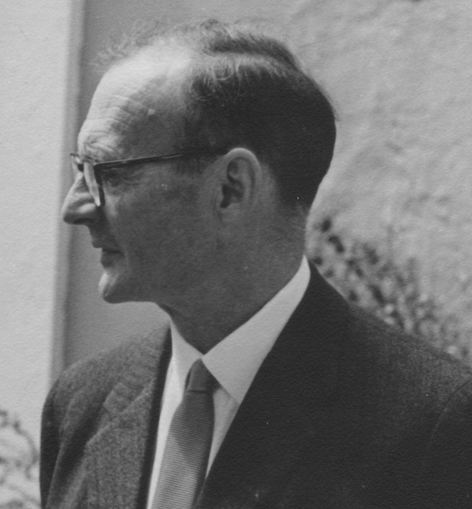 Photograph in profile of Sir Hugh Elliott, Bt, OBE